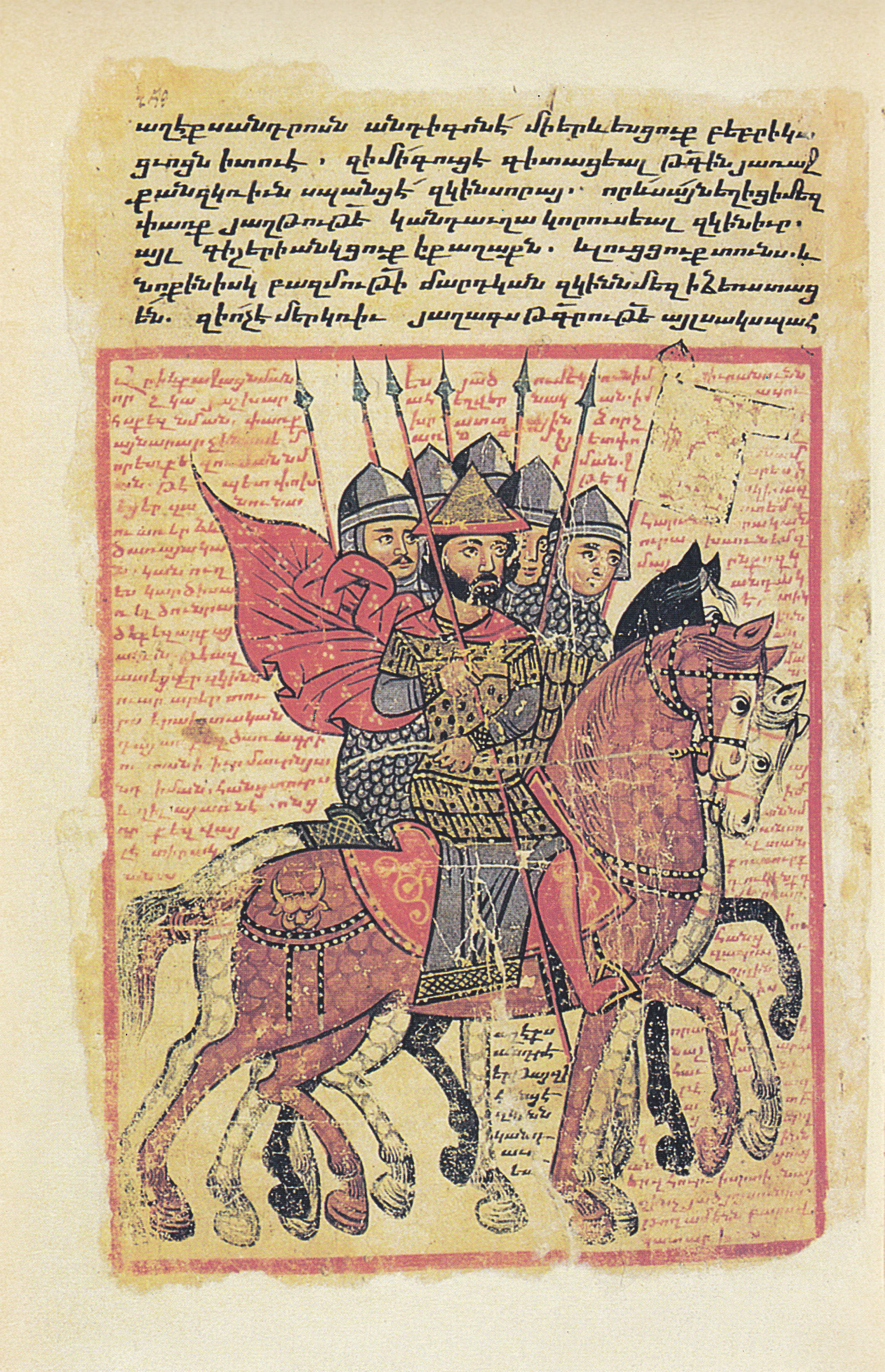 Alexander romance. Armenian illuminated manuscript of XIV century (Venice, San Lazzaro, 424)